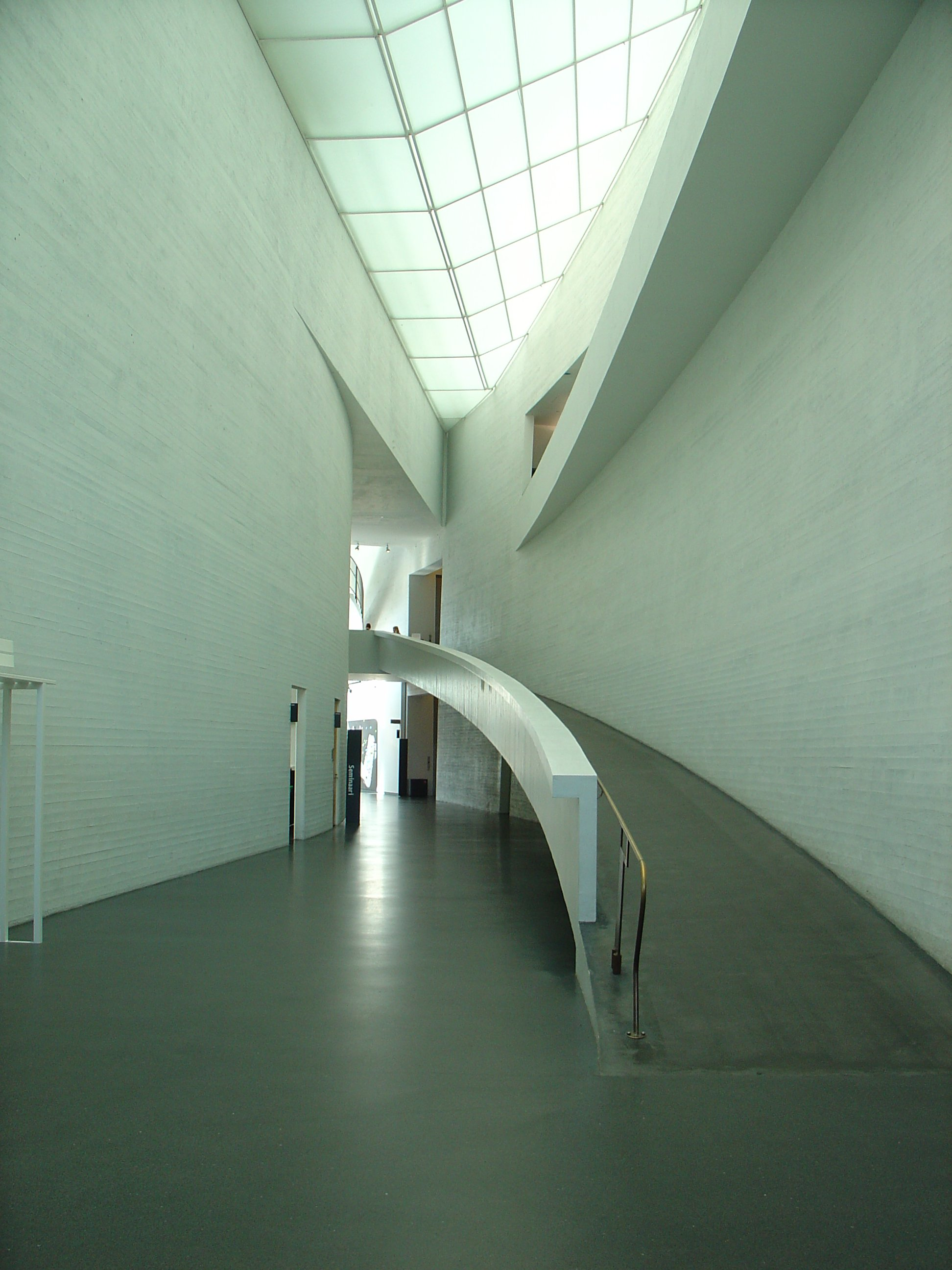 Kiasma museum entrance in Helsinki, Finland.